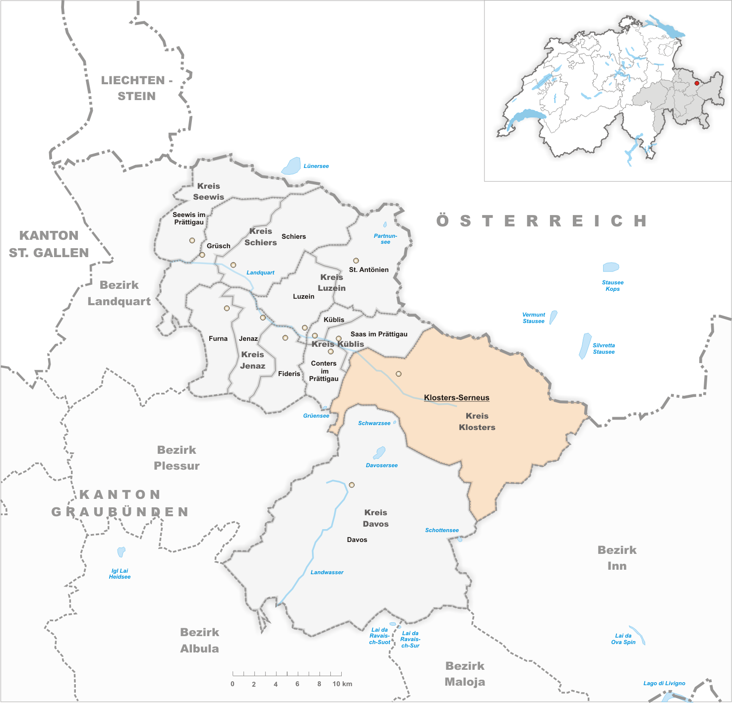 Municipality Klosters-Serneus